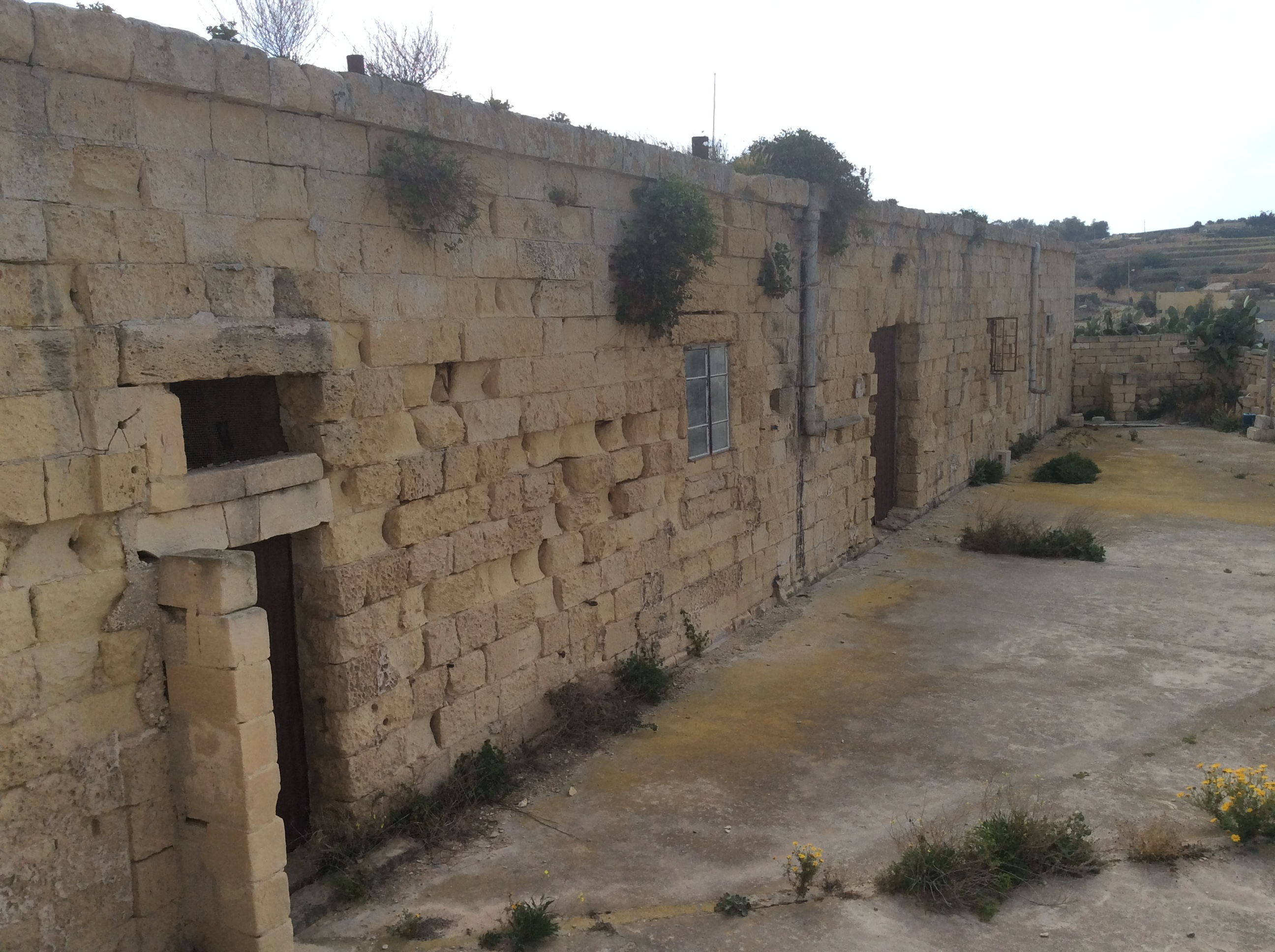 Rihama Battery and parapet